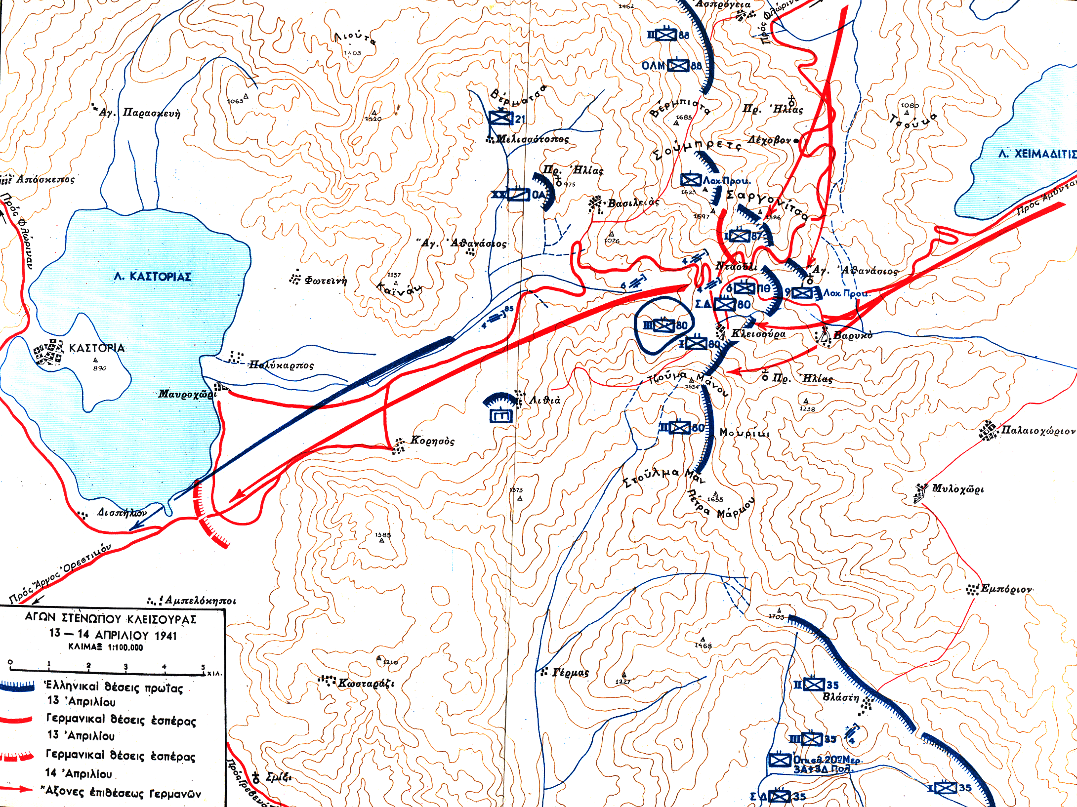 Map of the battle of Kleisoura Pass on 13 and 14 April. Blue color shows Greek forces and red color shows German forces.